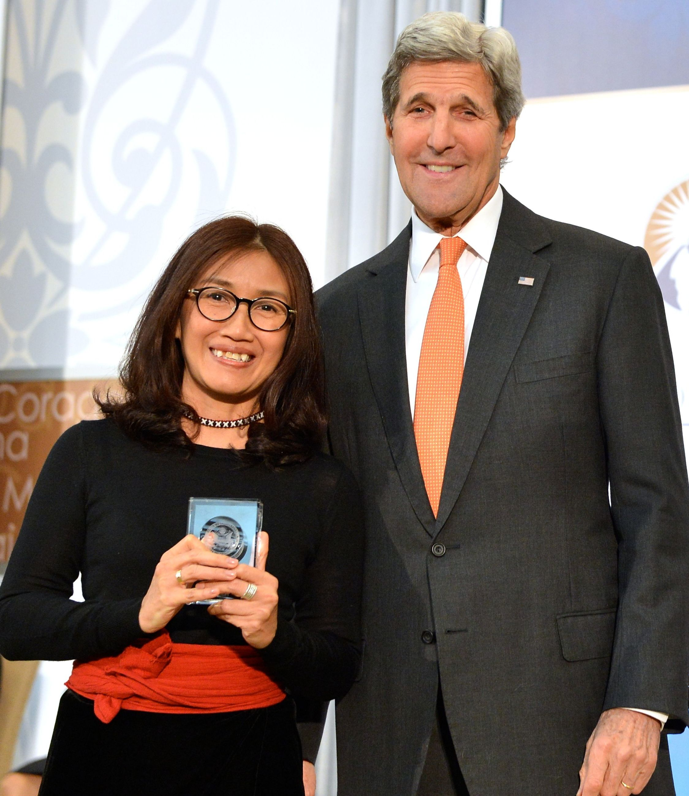 Rodjaraeg Wattanapanit and John Kerry at International Women of Courage Awards 2016